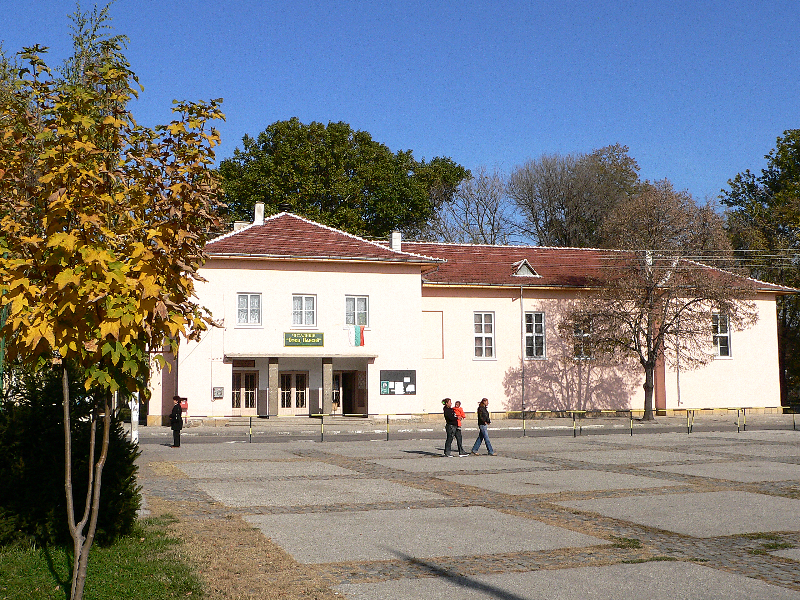 The library in village Ivaylo, Bulgaria